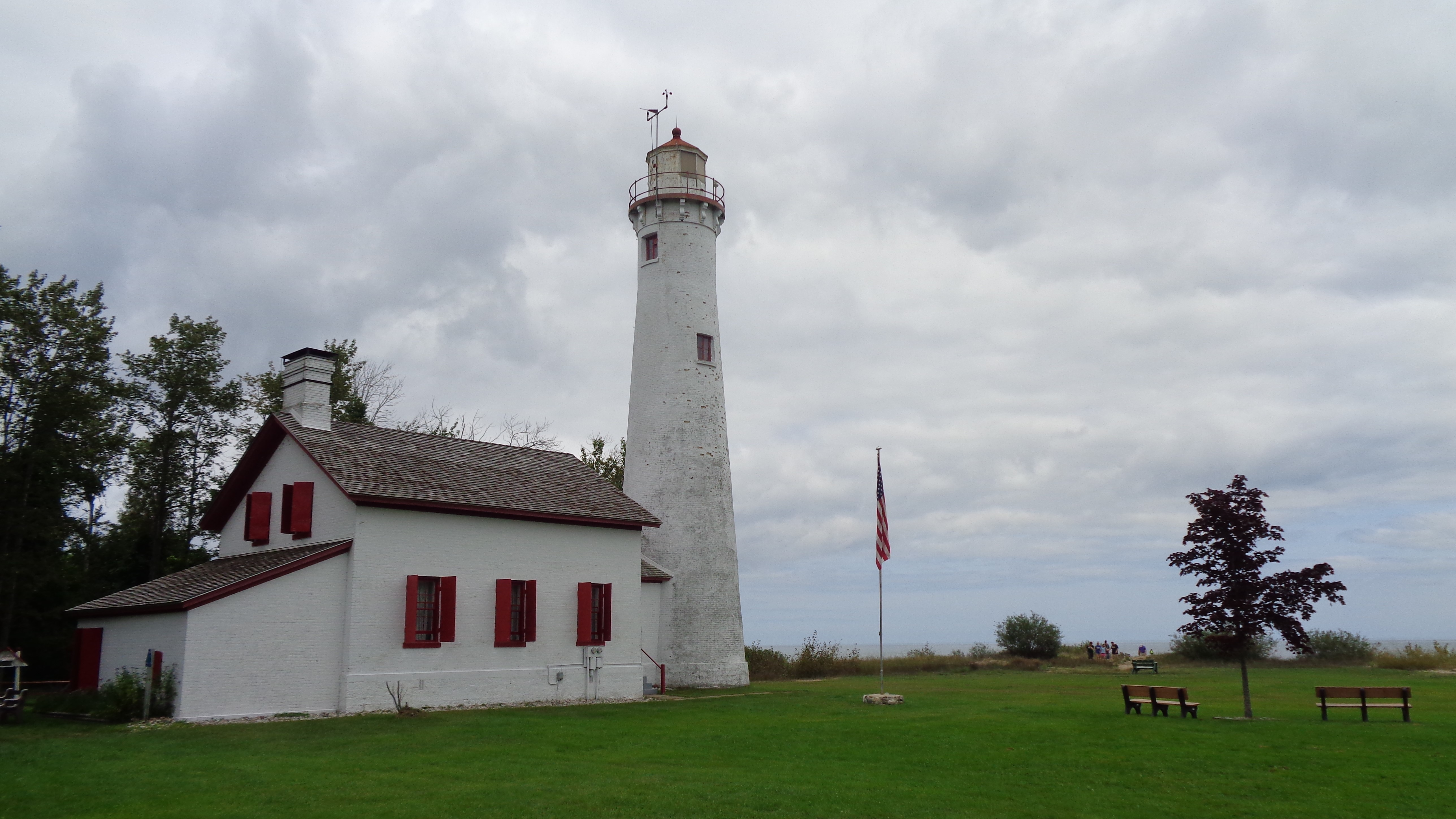 Sturgeon Point Light